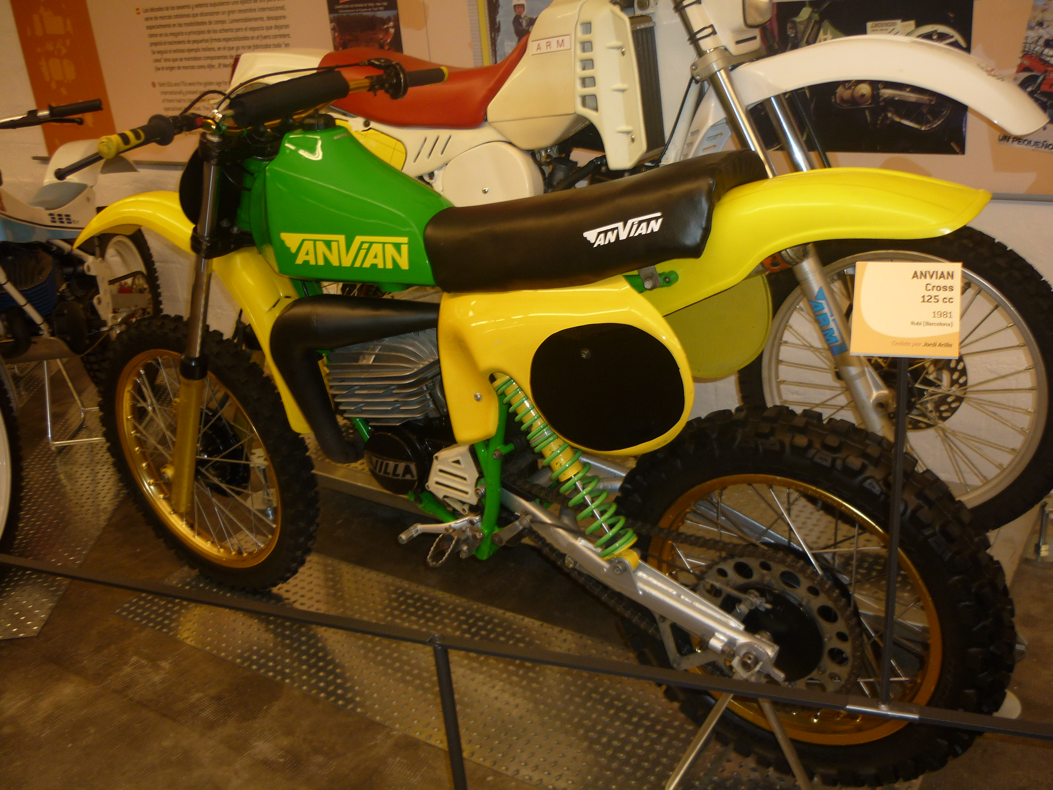 Anvian Cross 125cc (1981) with a Villa engine.Museu de la Moto de Barcelona (Catalonia).